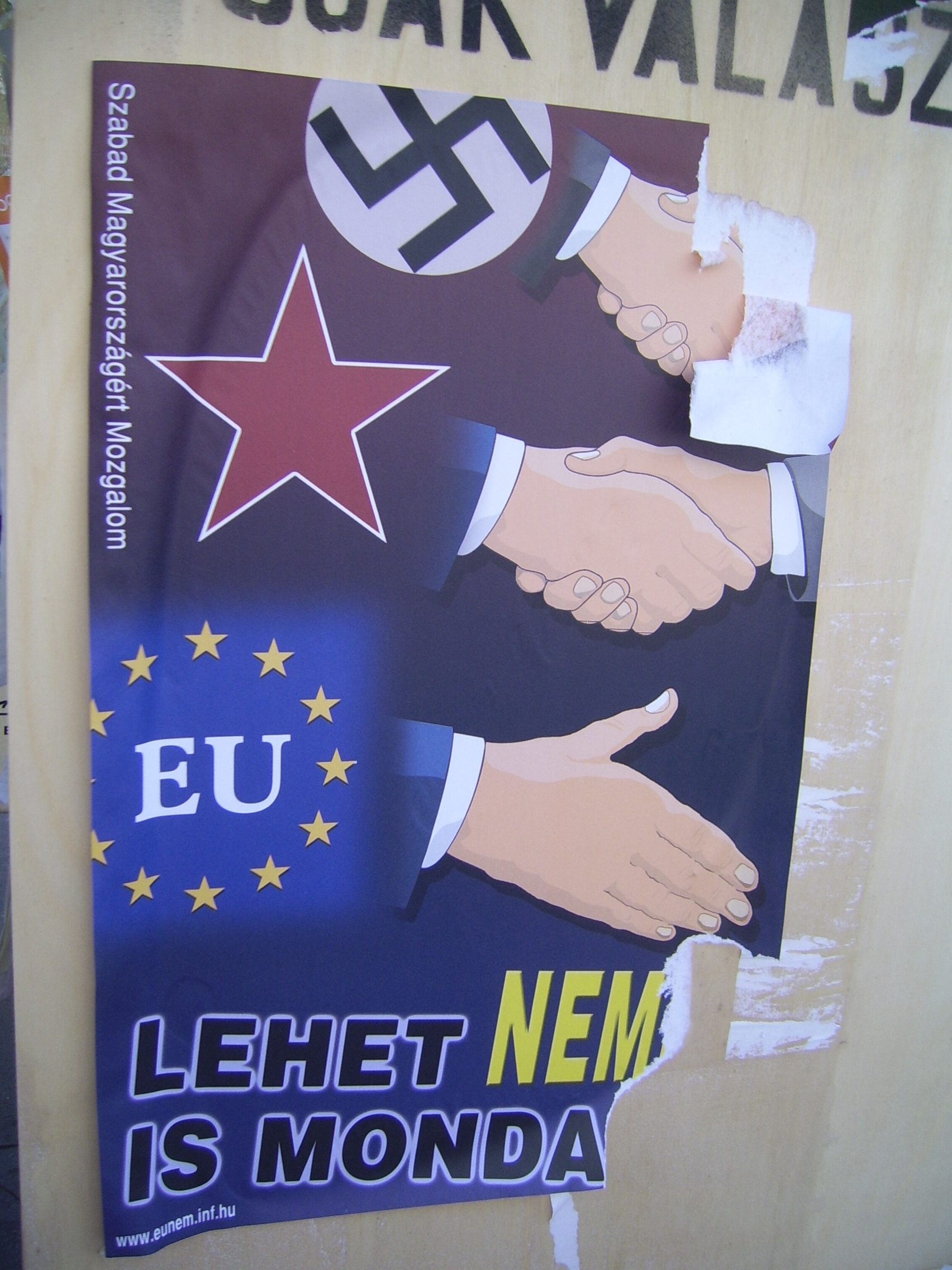 Demonstration against Hungary EU-membership, Budapest; Hungary